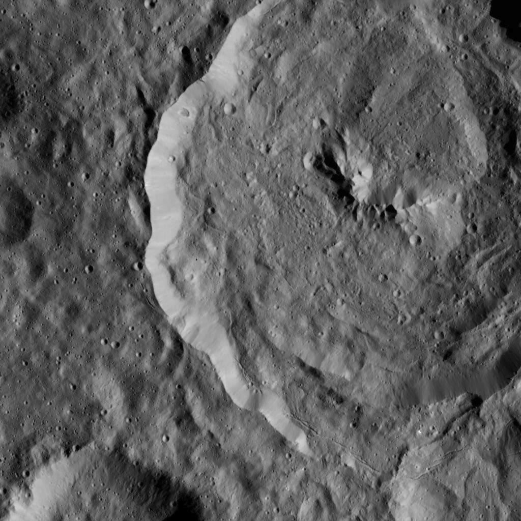 PIA20309: Dawn LAMO Image 19 Tupo Crater on Ceres is seen in this view from NASA's Dawn spacecraft. This crater, located in the southern hemisphere of Ceres, has a diameter of 22 miles (36 kilometers) and was named for the Polynesian god of turmeric. The image is centered at approximately 33 degrees south latitude, 88 degrees east longitude. Dawn captured the scene on Dec. 24, 2015 from its low-altitude mapping orbit (LAMO), at an approximate altitude of 240 miles (385 kilometers) above Ceres. The image resolution is 120 feet (35 meters) per pixel. An earlier view of Tupo Crater and its surroundings from an altitude of 915 miles (1,470 kilometers), is found at PIA20189.Dawn's mission is managed by the Jet Propulsion. Dawn's mission is managed by JPL for NASA's Science Mission Directorate in Washington. Dawn is a project of the directorate's Discovery Program, managed by NASA's Marshall Space Flight Center in Huntsville, Alabama. UCLA is responsible for overall Dawn mission science. Orbital ATK, Inc., in Dulles, Virginia, designed and built the spacecraft. The German Aerospace Center, the Max Planck Institute for Solar System Research, the Italian Space Agency and the Italian National Astrophysical Institute are international partners on the mission team. For a complete list of acknowledgments, For more information about the Dawn mission, visit